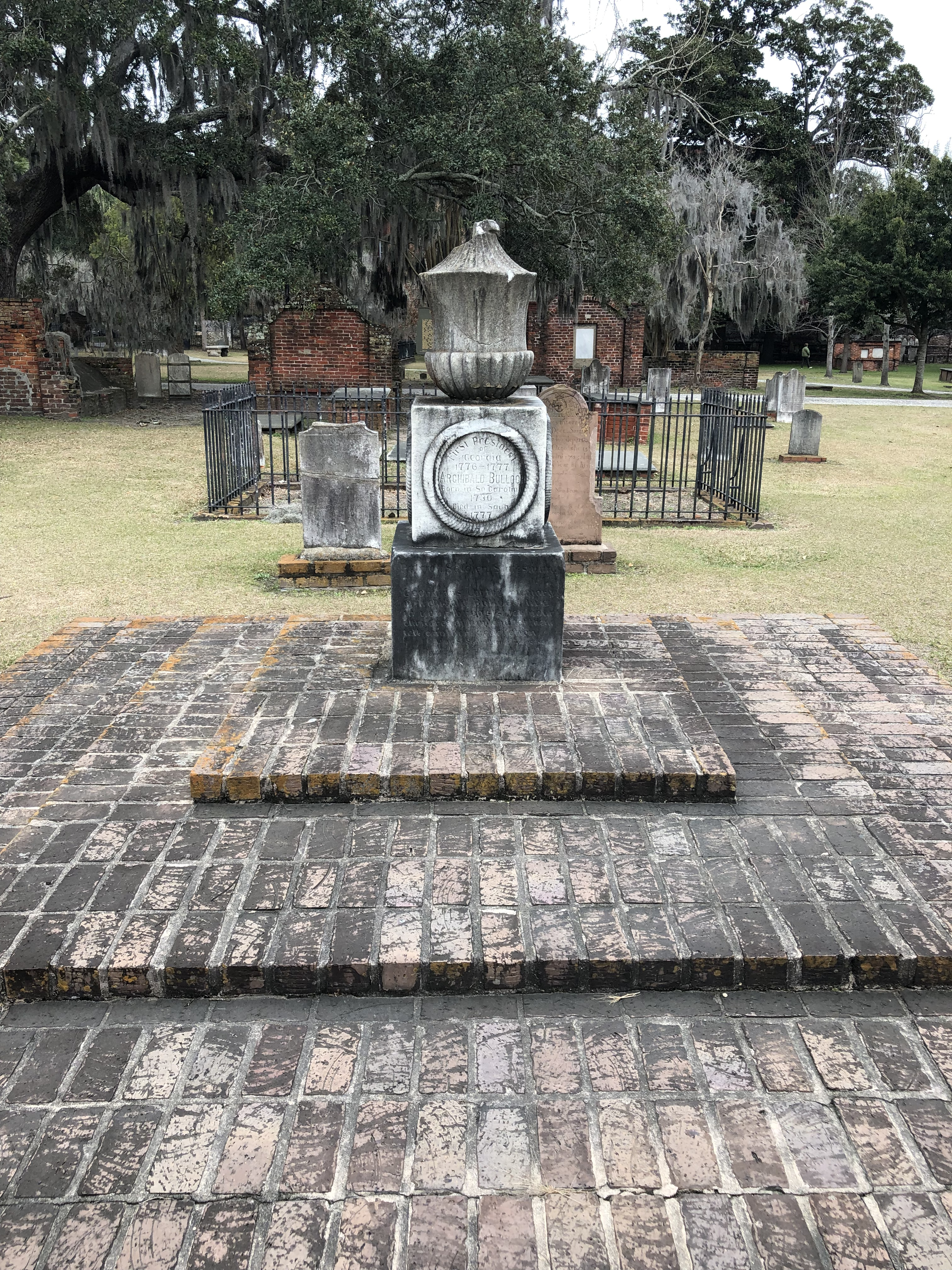 This is the gravesite of Archibald Bulloch located in Colonial Park Cemetery, Savannah Georgia. He was the first president of Georgia and the great-great-grandfather of US President Theodore Roosevelt.